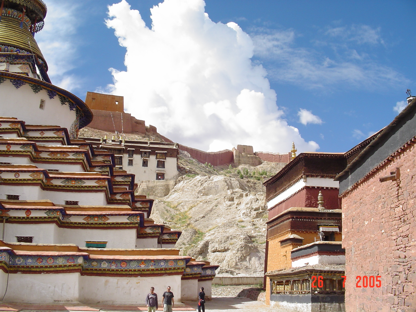 Kumbum of Gyantse